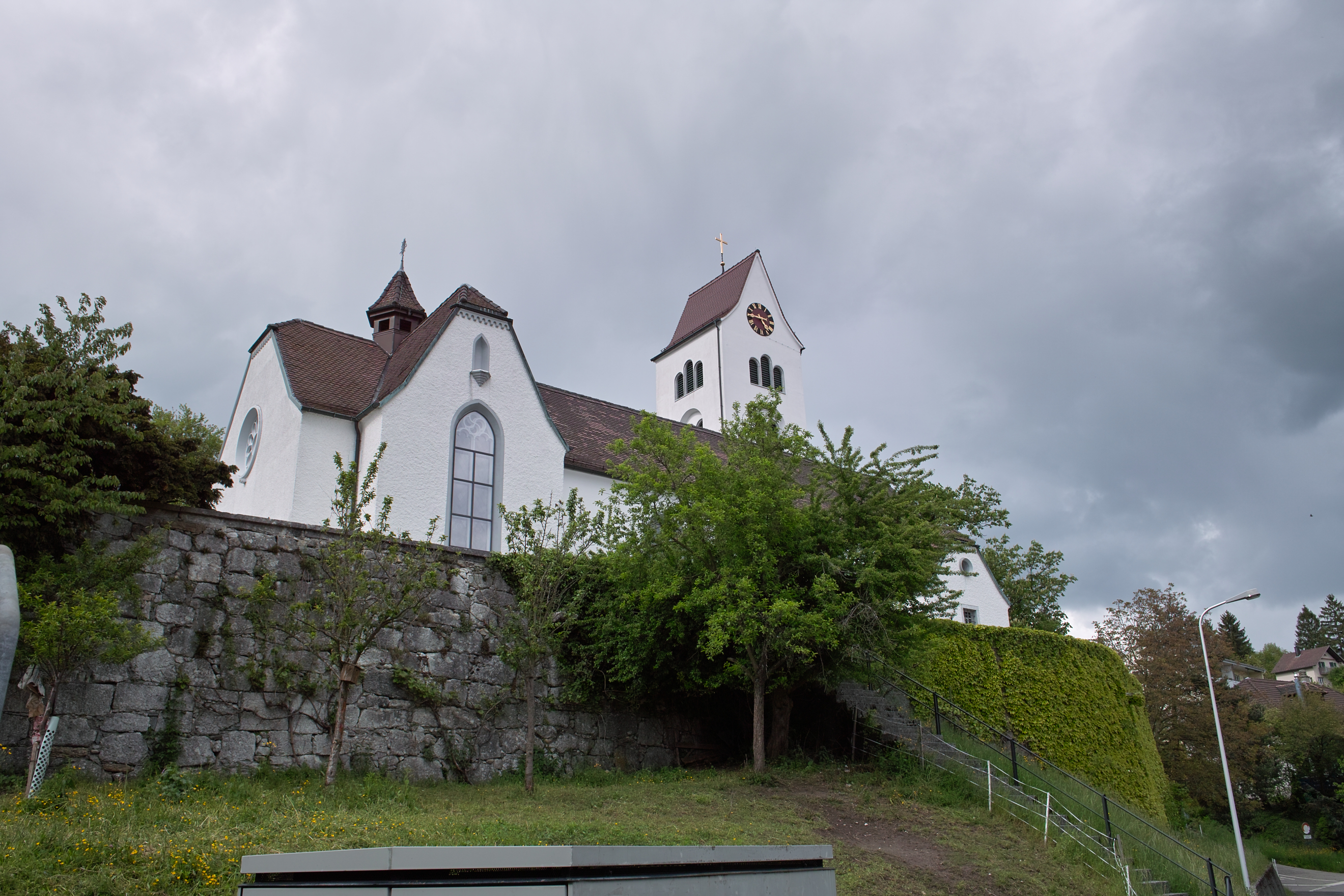 Church of Flumenthal, canton of Solothurn, Switzerland.